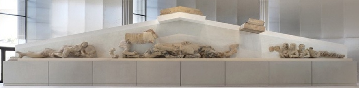 Wast pediment of the Hekatompedon (Athens, acropolis museum)